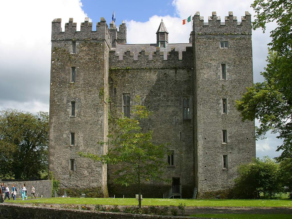 Bunratty Castle, county Clare, Ireland